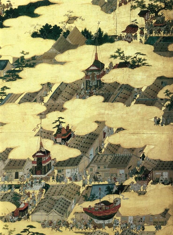 Kanō Eitoku: Rakuchū rakugai-zu, c. 1570, ink,color and gold on paper, 160x365 cm. Uesugi Meseum, Yonezaka.